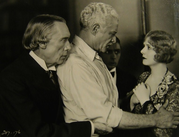 Left to Right : Edward Connelly, Lewis Stone, and Alice Terry in The Prisoner of Zenda (1922) - cropped screenshot (see source)